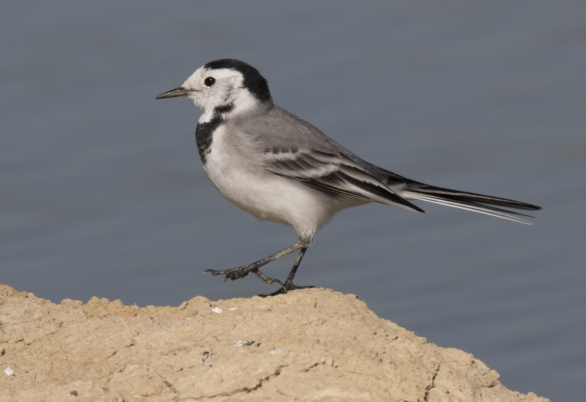 White Wagtail (Motacilla alba). Tuzla - Karataş, Adana - Turkey.